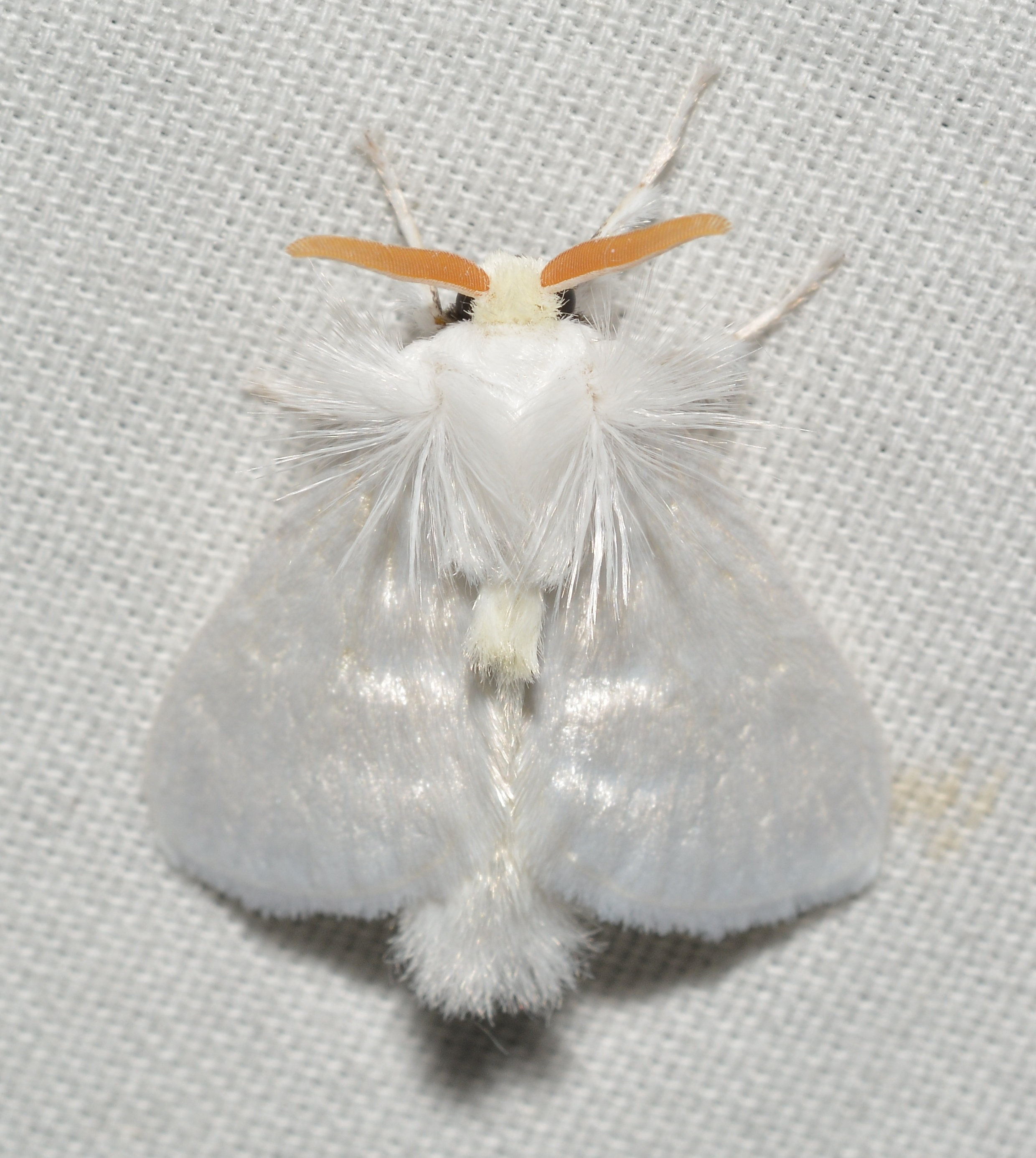 Third time mothing at Hawn State Park in Ste. Genevieve, Missouri 6/9/19